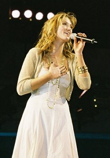 A photo taken of Delta Goodrem at rehearsals for the Carols by Candlelight, December 23rd 2006.